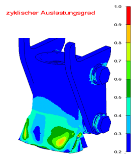 contour plot showing cyclic using factor